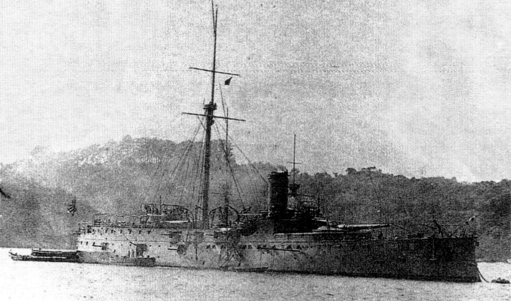 Picture of Japanese cruiser Itsukushima in Yokosuka 1908